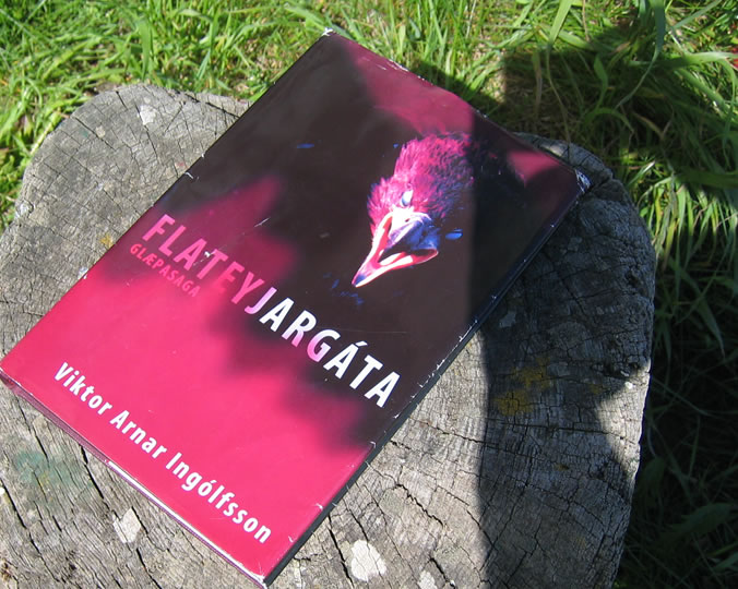 photo by Salvor Gissurardottir June 28th 2006 taken outside a house in the old Flatey village book Flateyjargátan (the Flatey mystery)on old driftwood